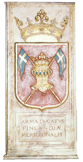 Arma Ducatus Finlandiae Meridionalis